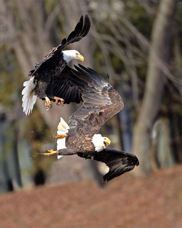 Two eagles emerge empty-clawed after competing for a fresh fish at Upper Mississippi River National Wildlife Refuge. Photo: Les Zigurski, finalist, 2012 NWRA photo contest